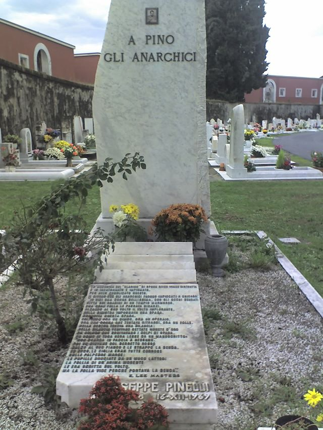 Grave of Giuseppe Pinelli